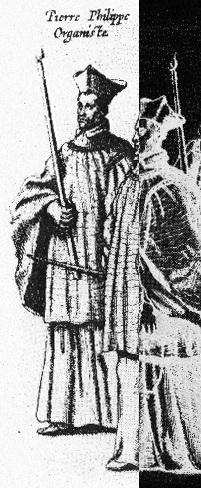 Fragment of a print, representing Peter Philips, English composer in the Netherlands.